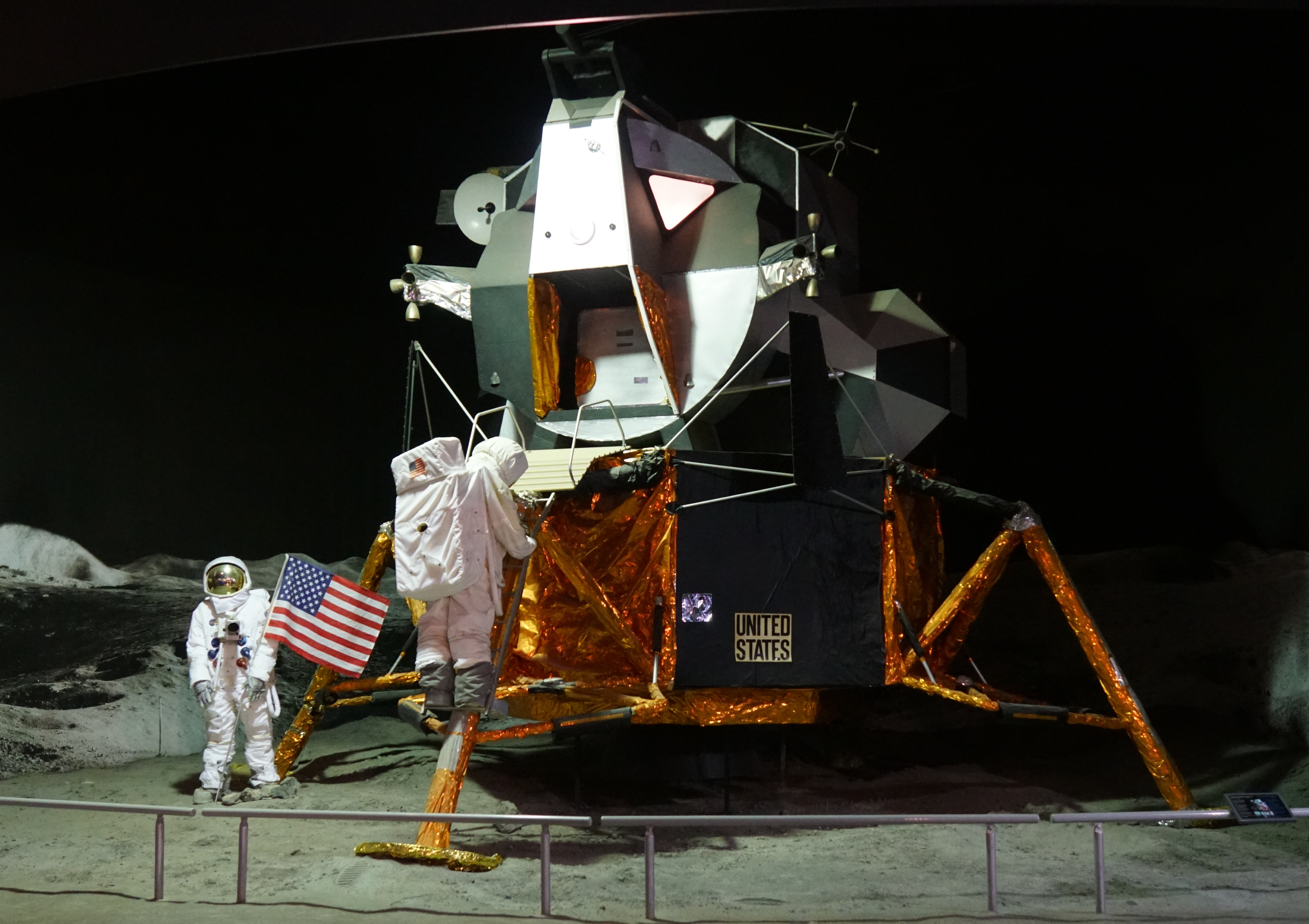 Space Expo, Noordwijk, The Netherlands. Landing on the Moon.